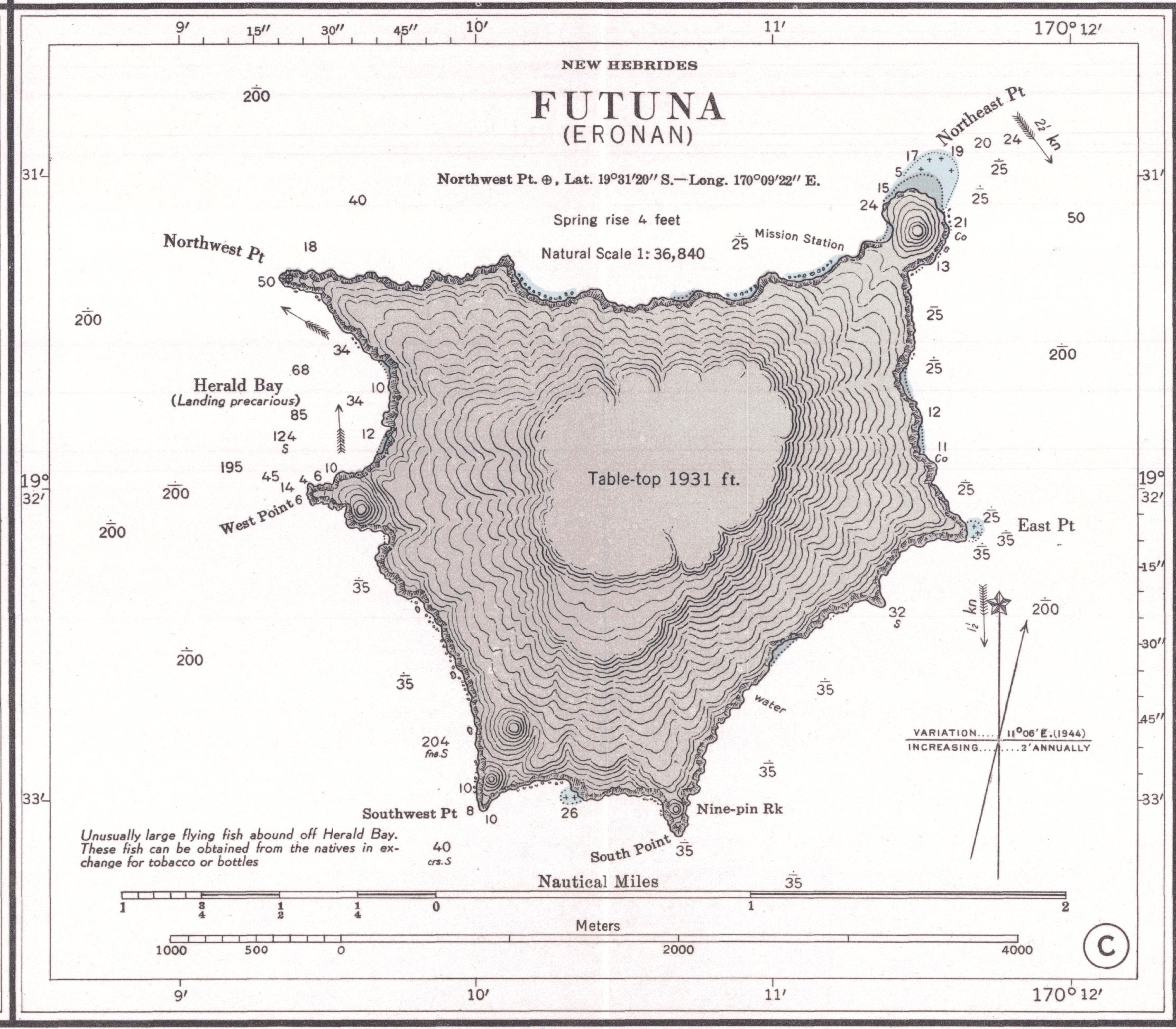 Old U.S. Nautical Chart of Aneityum and adjacent islands, South Pacific Ocean